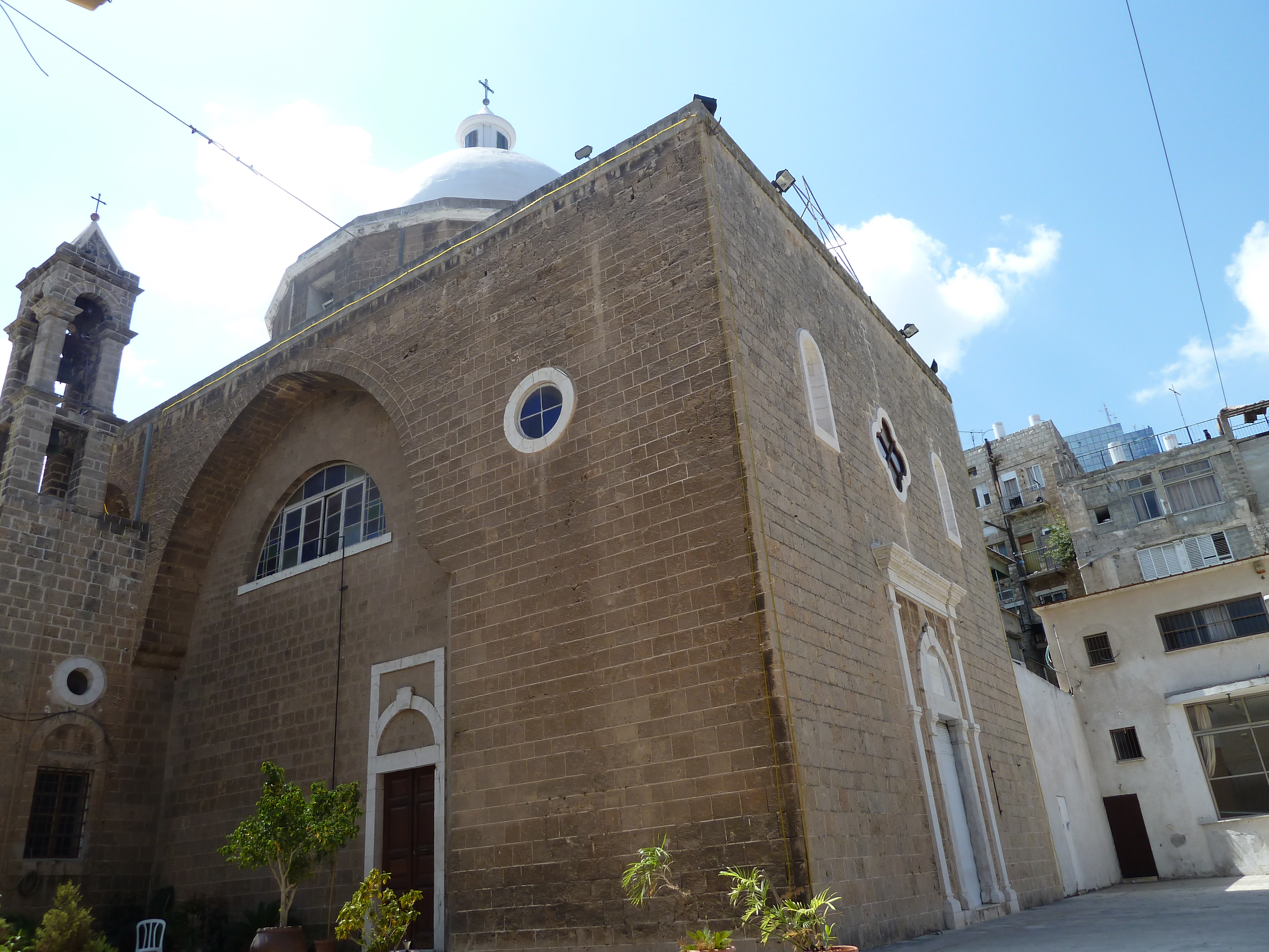 Maronite Church St. Louis, Downtown, Haifa